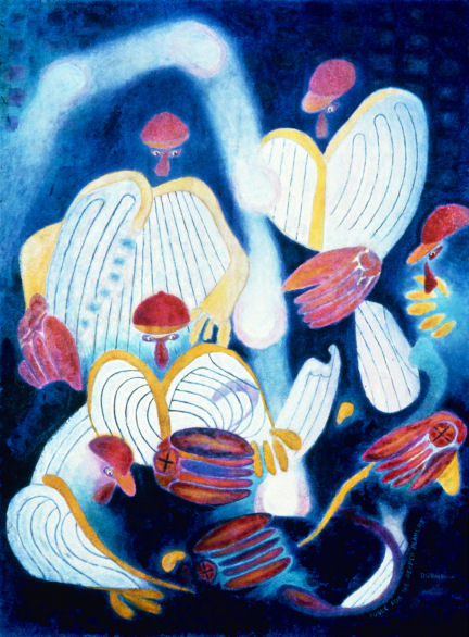 Photo of Dave Baldwin's painting "Fugue for the Pepper Players." Now in the permanent collection of the National Baseball Hall of Fame Museum, Cooperstown, NY.